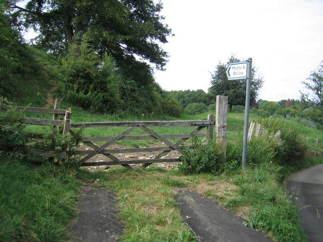 Swerford Motte and Bailey. The sign point directly toward the Motte with the Bailey partially hidden in the bushes and trees.